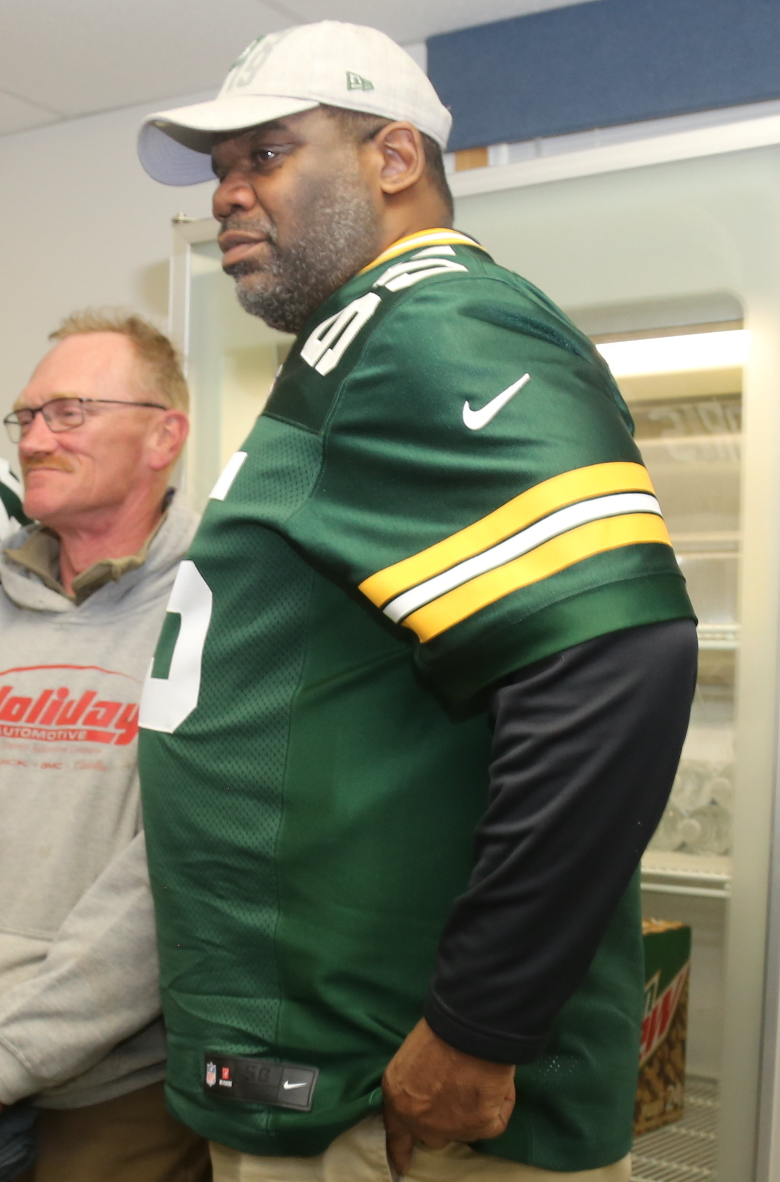 Members of the Green Bay Packers Tailgate Tour meet with Soldiers at a dining facility April 10, 2019, at Fort McCoy, Wis. Packers President/CEO Mark Murphy and six Packers alumni were among the people on the 14th annual Packers Tailgate Tour who visited Fort McCoy. Packers alumni on the tour were Earl Dotson, Nick Barnett, Ryan Grant, Aaron Kampman, Scott Wells, and Bernardo Harris. All of the tour members mingled with Soldiers, signed autographs, and posed for photos. Tour members also visited Fort McCoy’s Range 2 to learn about operations for Operation Cold Steel III and Task Force Fortnite. (U.S. Army Photo by Scott T. Sturkol)